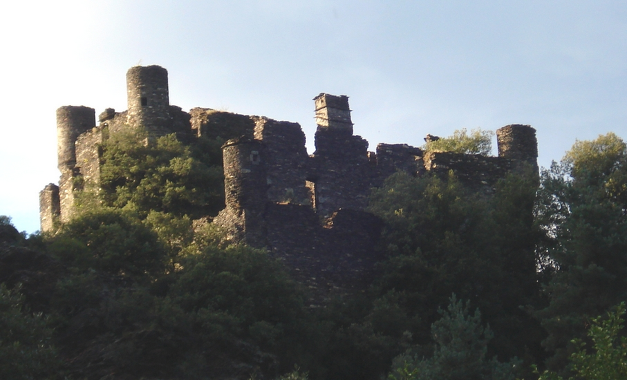 Moissac-Vallée-Française's castle seen from south